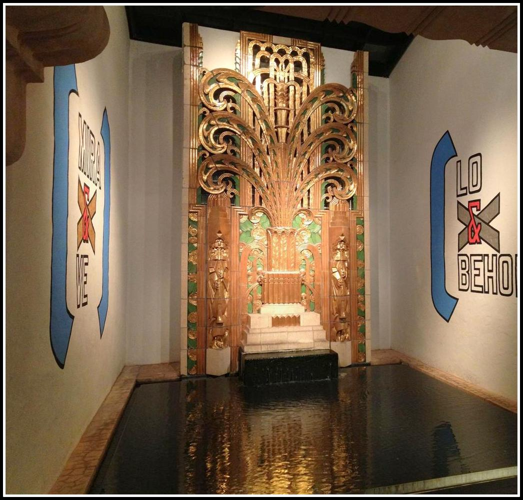 Tiles of the façade of the Norris Theater, Norristown, Pennsylvania, as reassembled in the lobby of The Wolfsonian-FIU, Miami Beach, Florida, USA.